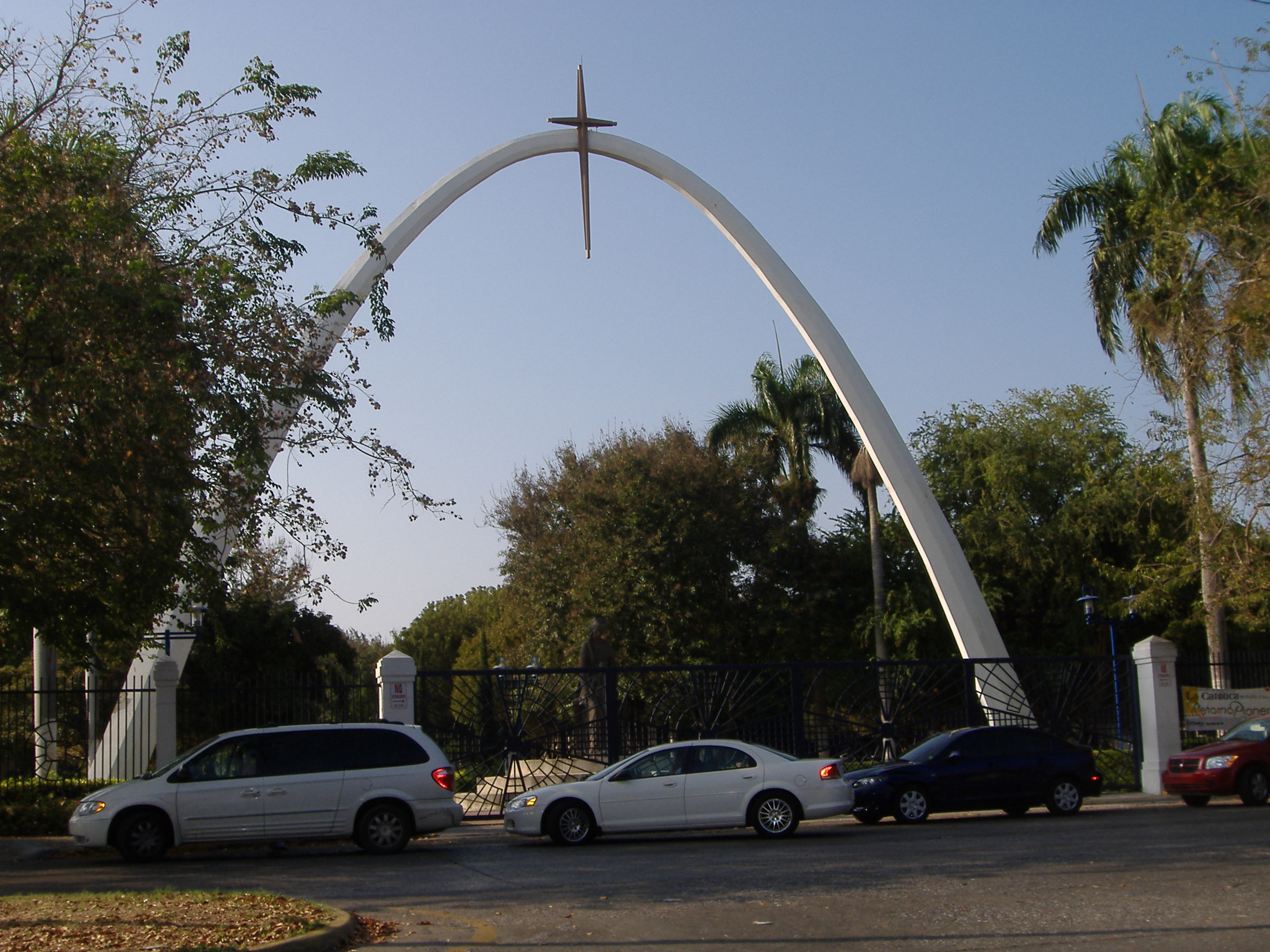 Front view of the Pontifical Catholic University of Puerto Rico main entrance.